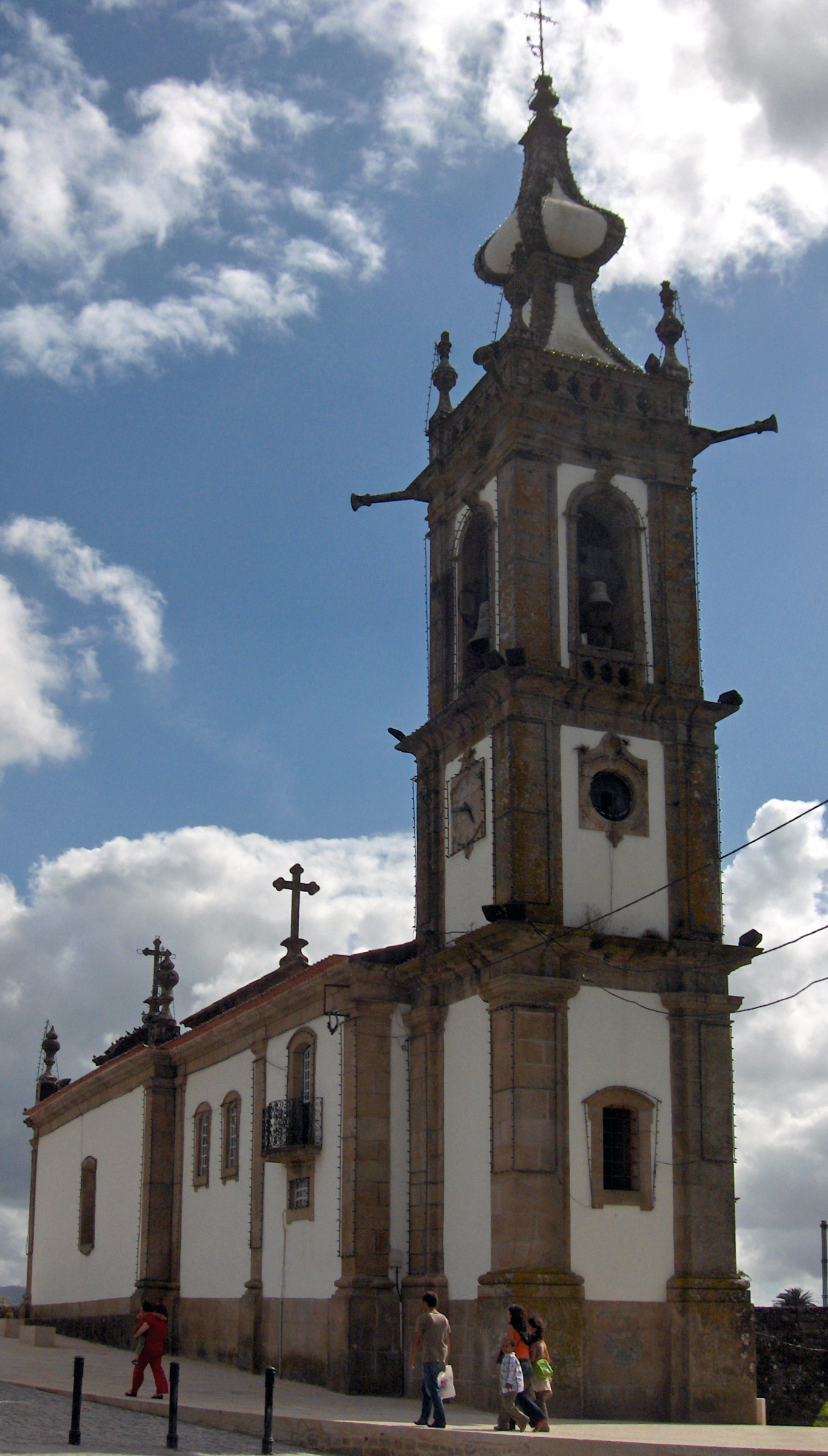 Church of Santo António da Torre Velha, in Ponte de Lima, Portugal.